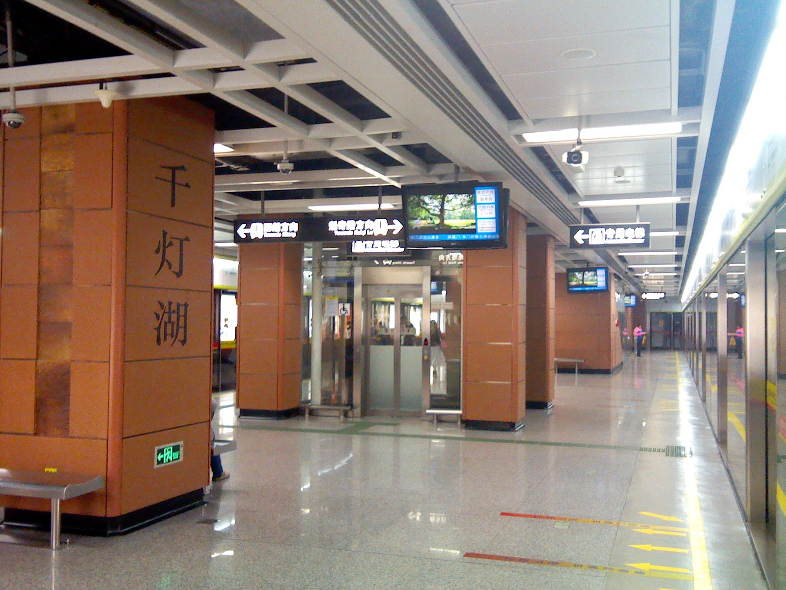 车站月台（魁奇路方向）